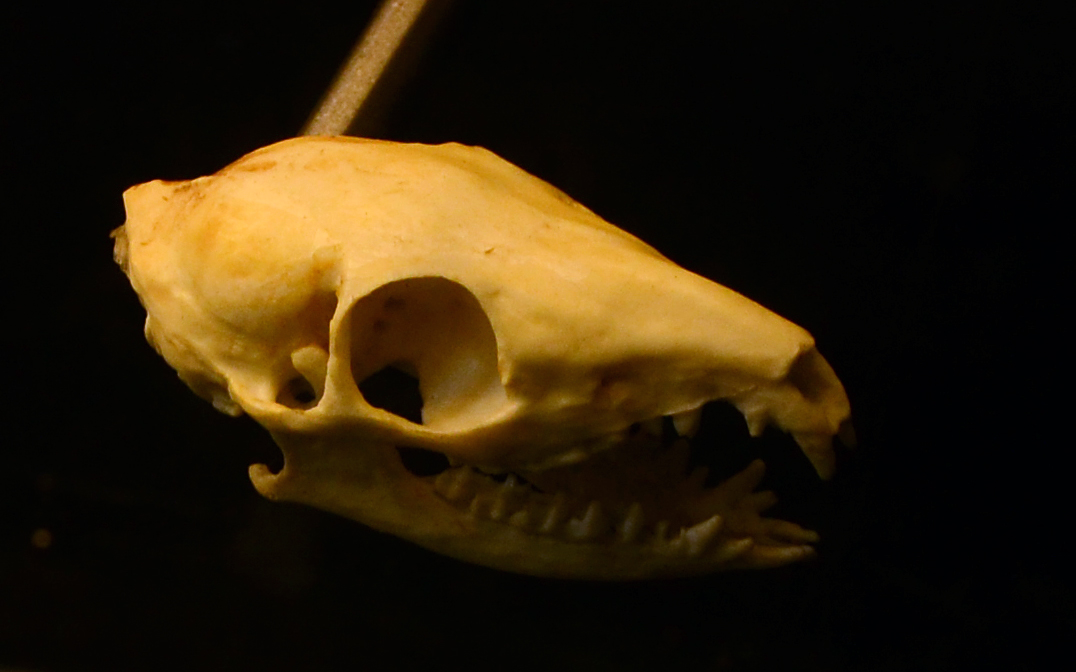 Skull of a Burmese tree shrew ( Tupaia belangeri ), at Planckendael.